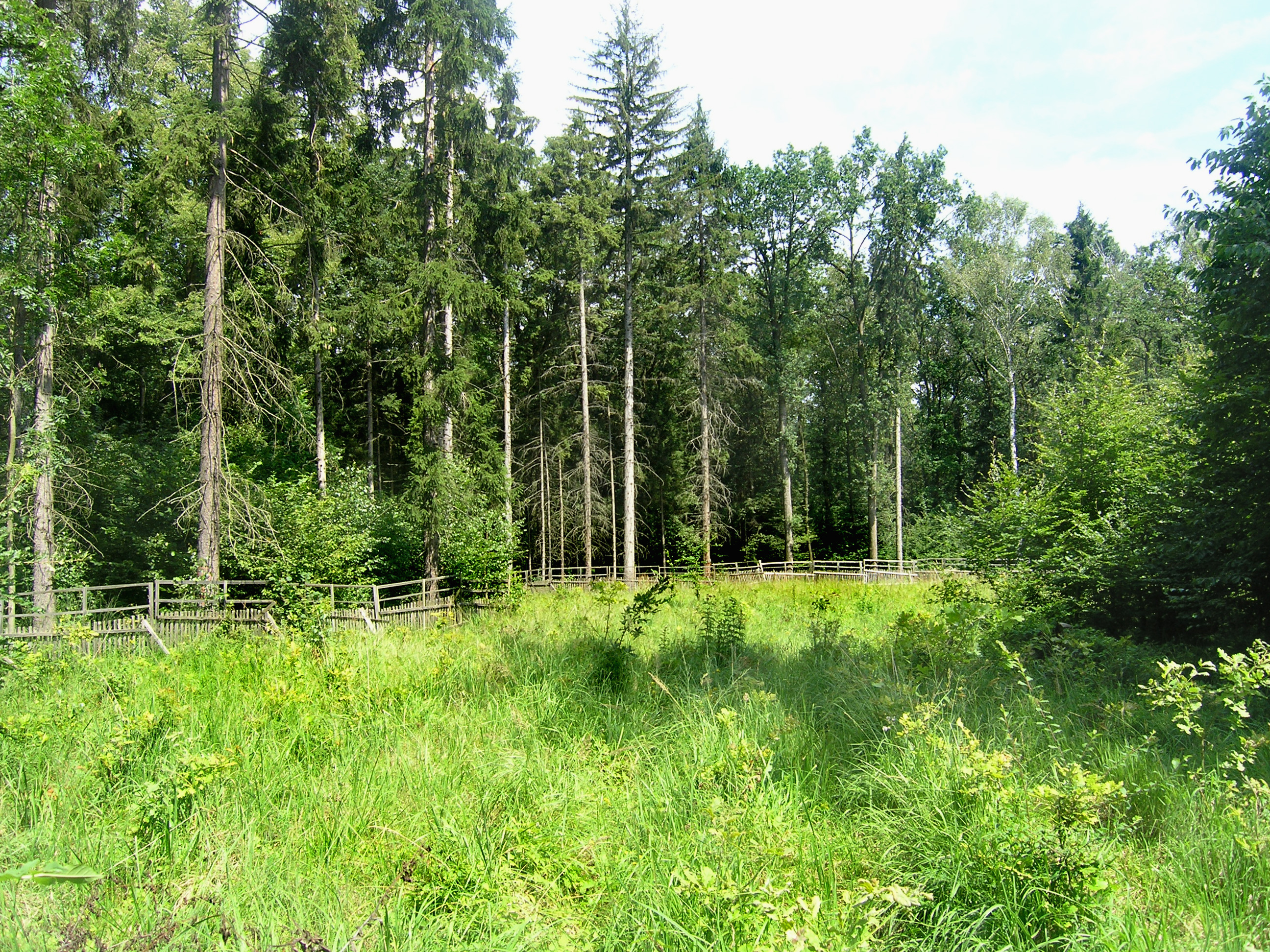 Natural reserve Dománovický les, Czech Republic